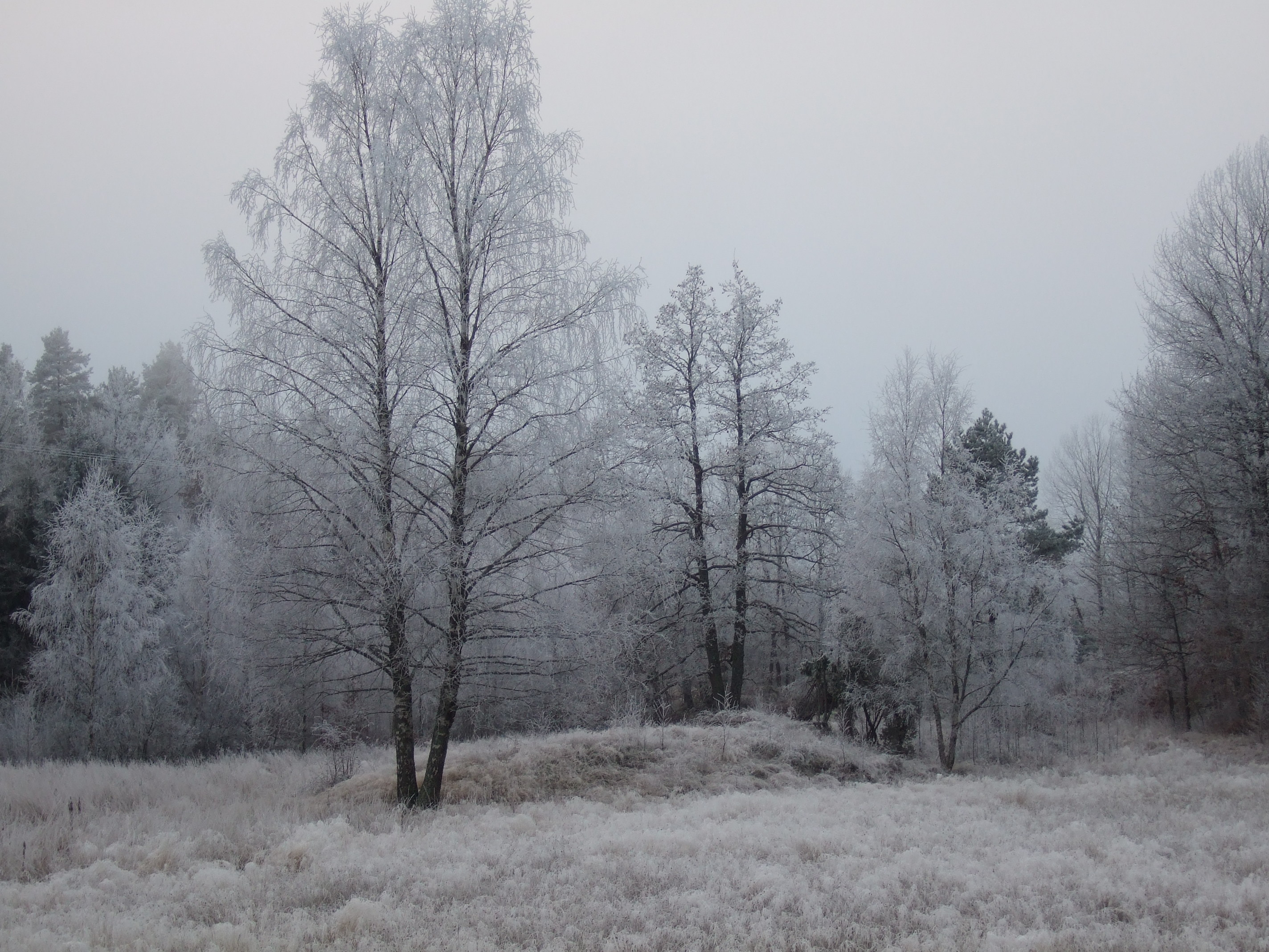 Frosty landscape